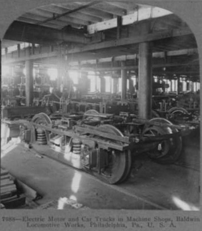 Electric motor and car trucks in machine shops, Baldwin Locomotive Works, Philadelphia, Pa., U.S.A.